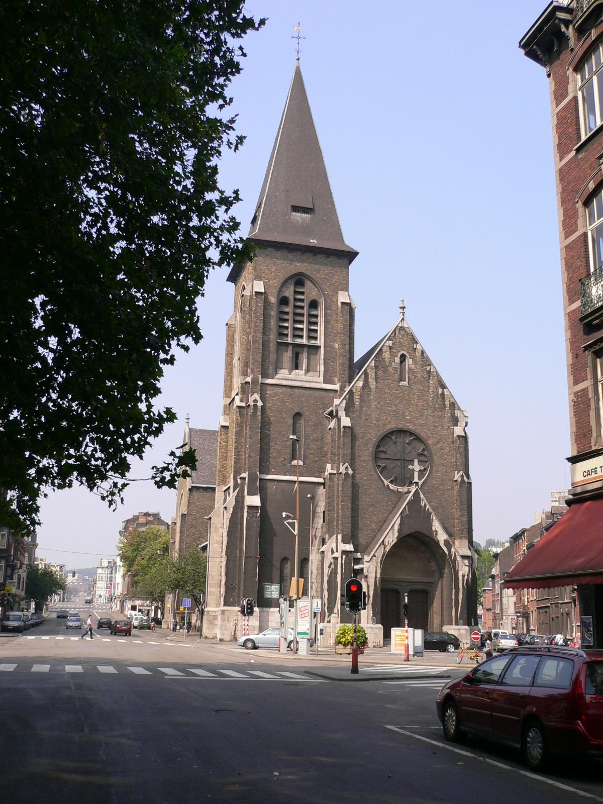 Liège - Saint-Pholien Church (Belgium)